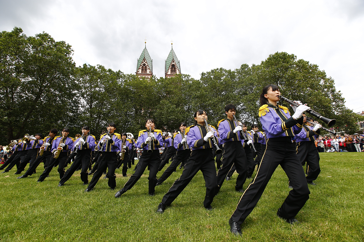 Parade Freiburg 2012